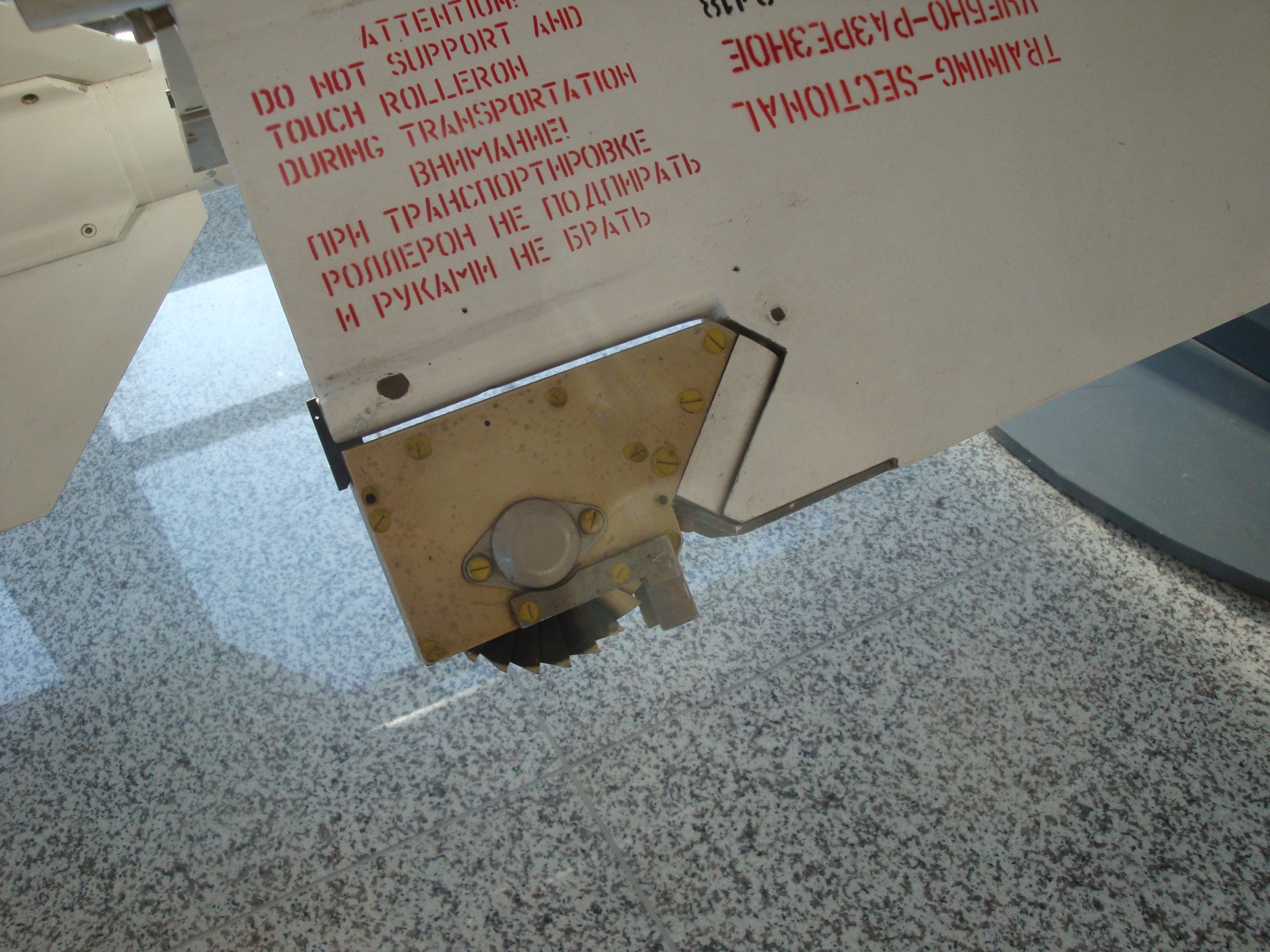 Rolleron of soviet anti-aircraft Vympel R-13